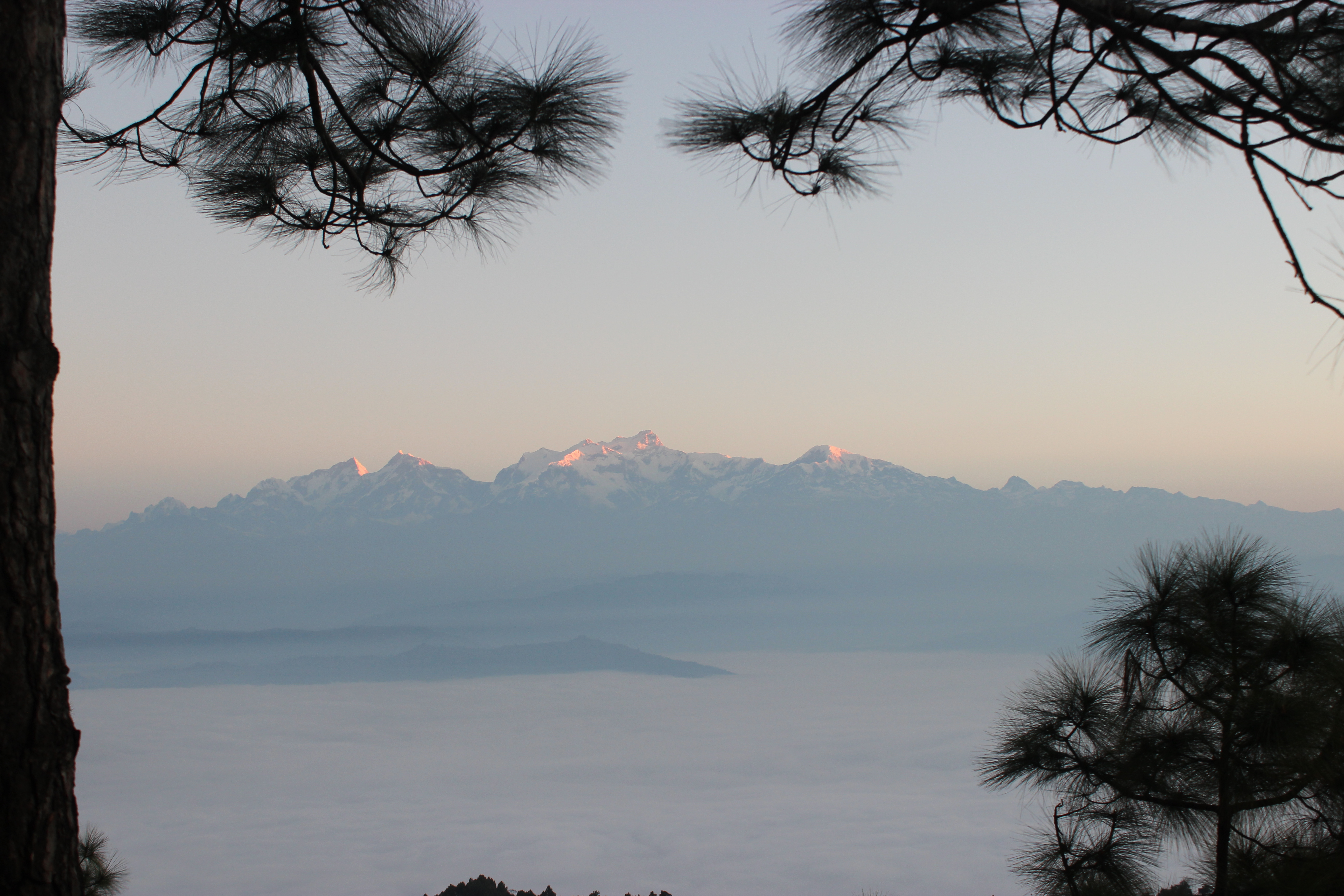 Dhaulagiri & Annapurna range from Thanithan, Bandipur